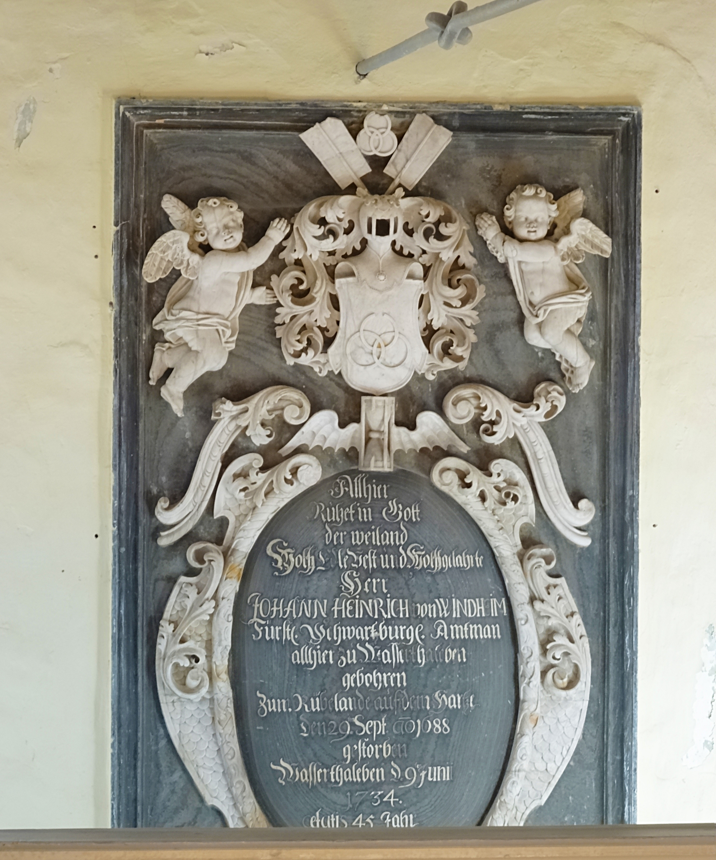 Epitaph für den Fürstlich Schwarzburgischen Amtmann Johann Heinrich von Windheim (29. September 1688–9. Juni 1734)